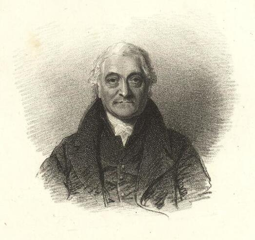 A portrait from the Welsh Portrait Collection at the National Library of Wales. Depicted person: John Gutch – British antiquarian